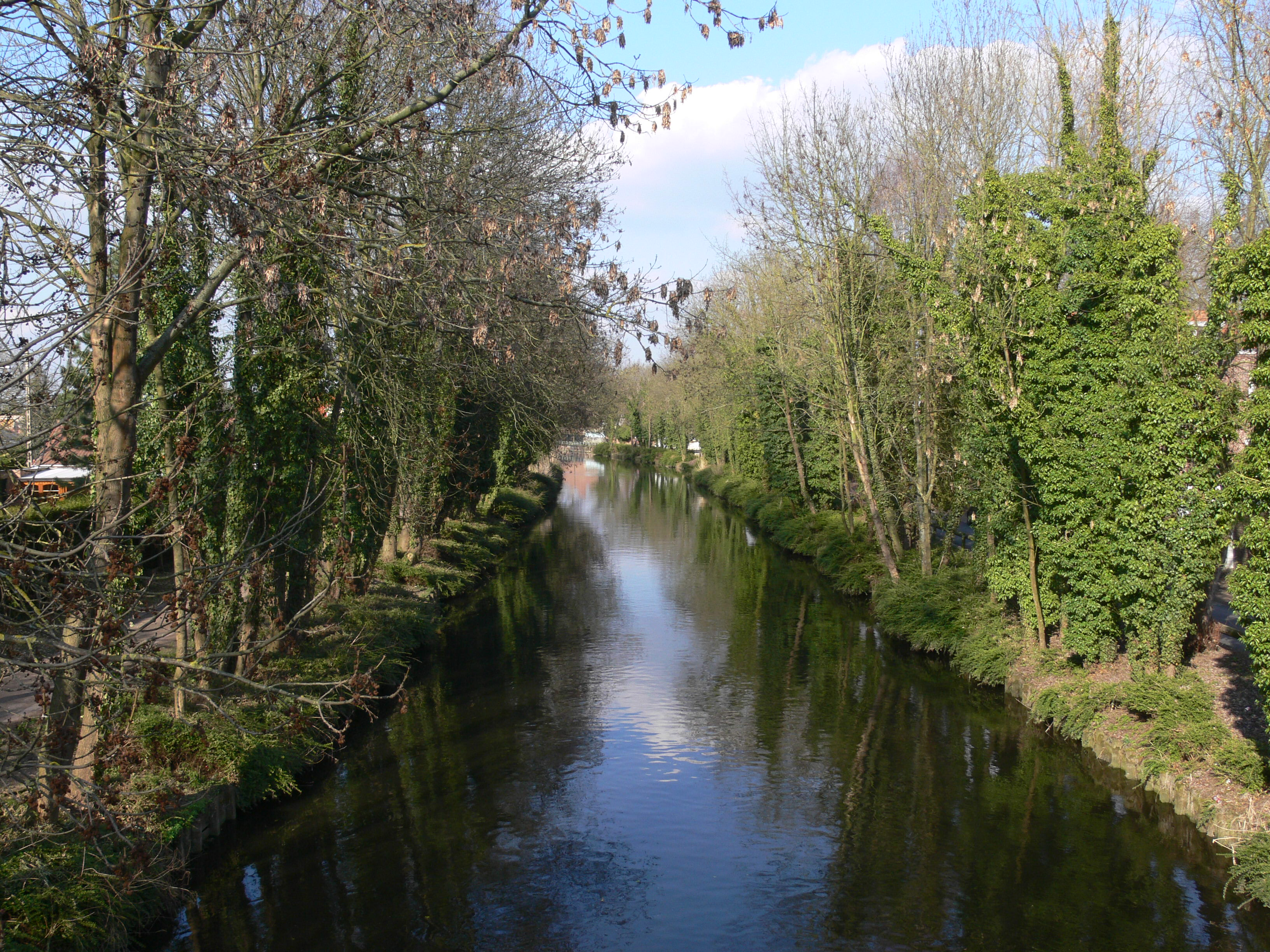 Scarpe river at Lambres-lez-Douai